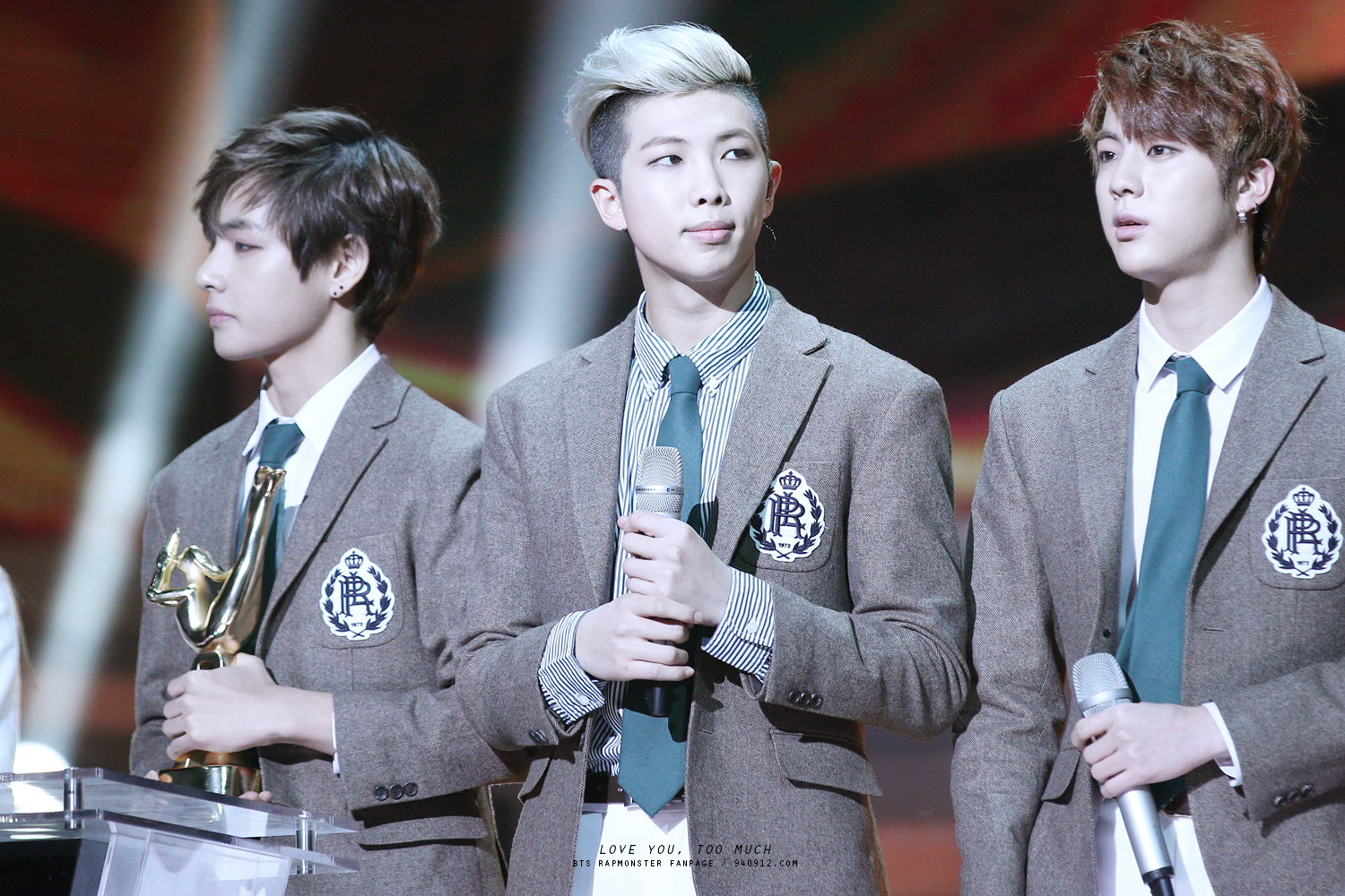 Bangtan Boys (BTS) receiving Bonsang award at the 29th Golden Disk Awards on January 14, 2015 in Beijiing, China. From left to right: V, Rap Monster and Jin.